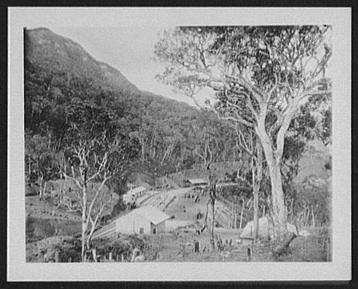 Title: Railroad station - Ohiya Physical description: 1 photographic print : gelatin silver ; 8 x 10 in. or smaller. Notes: Forms part of: Jackson, William Henry, 1843-1943. World's Transportation Commission photograph collection (Library of Congress).; Gift; Colorado Historical Society; 1949.; Photographic print made by LC from Jackson's vintage film negative.